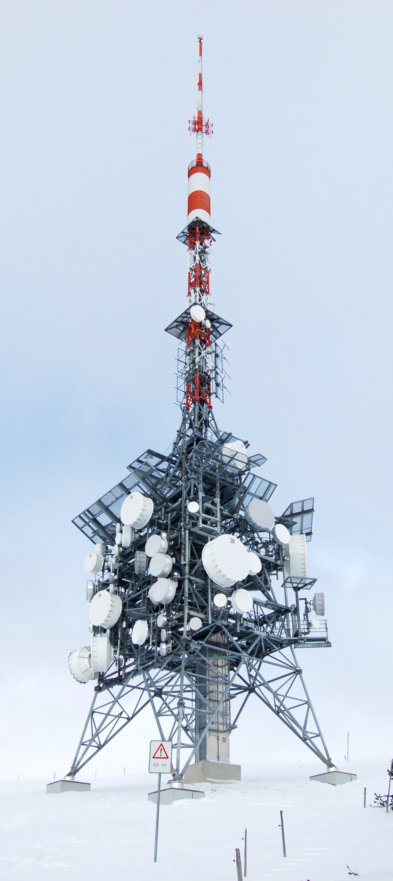 Radio tower on the Niederhorn, Switzerland.